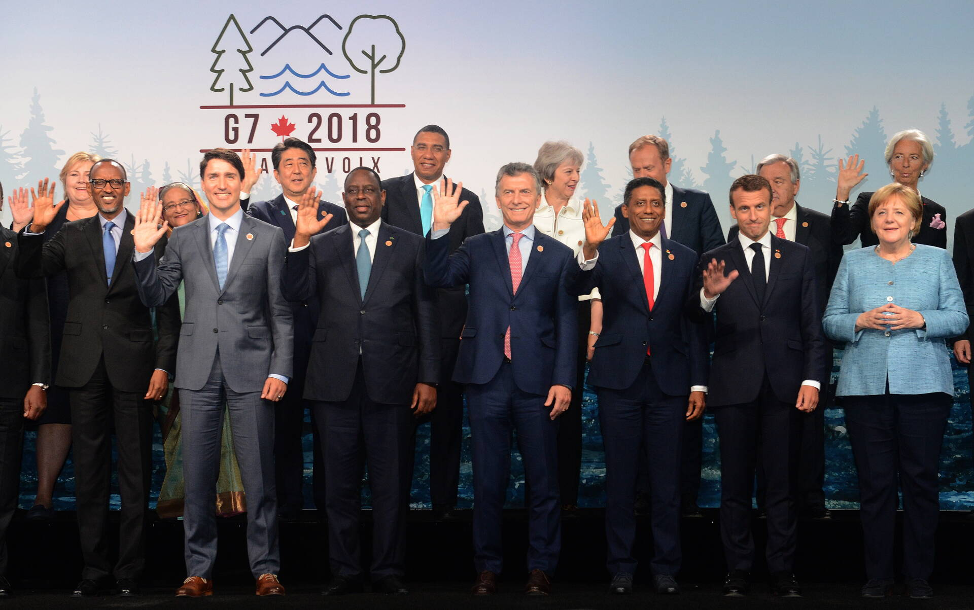 Most leaders of greatest industrialized states (G7 / G8-2) with guests at 44th G7 summit in La Malbaie (Canada), 9 June 2018 (without Donald Trump).